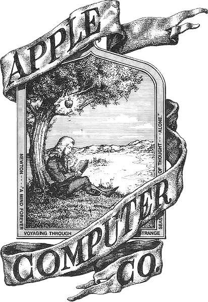 Apple's absolute first logo, pre 1976. Drawn by then co-founder Ronald Wayne. The logo features Sir Isaac Newton sitting under the apple tree where he supposedly discovered gravity, by an apple falling on his head. See here for the 1976 Apple 1 manual and advertisements where this logo was used.